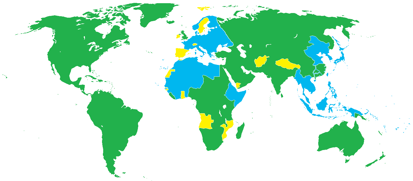 Map of the Axis Powers in 1945